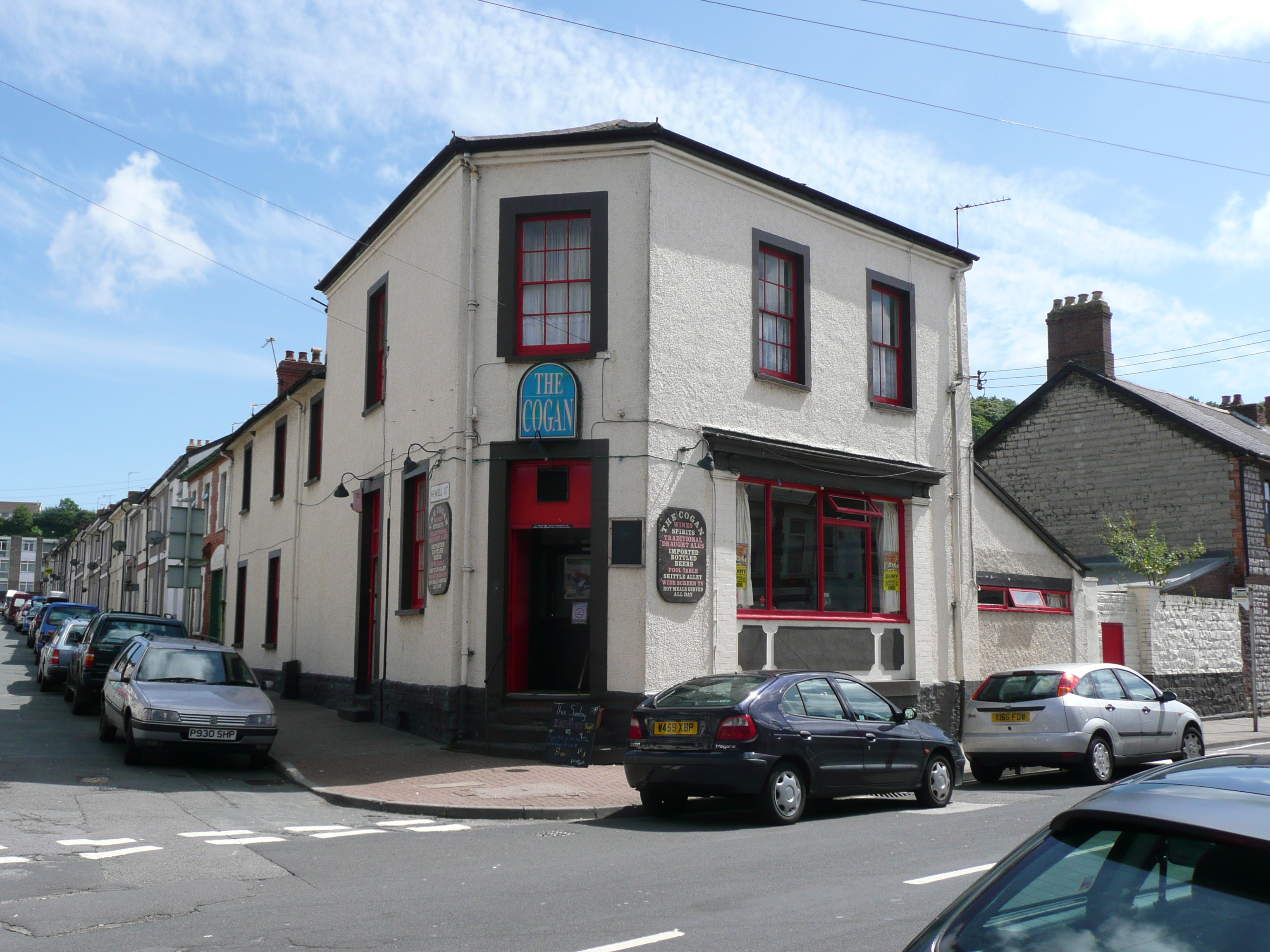 The Cogan Public House in Cogan near Penarth South Wales